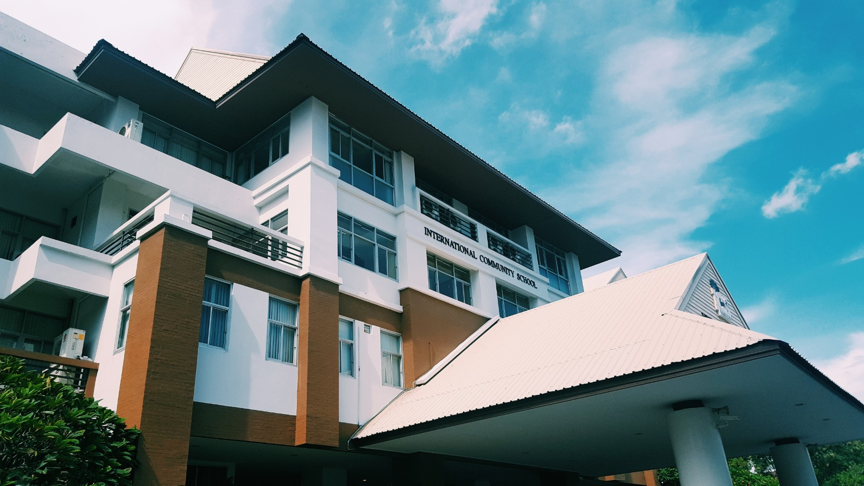 This is a landscape picture of ICS bangkok.